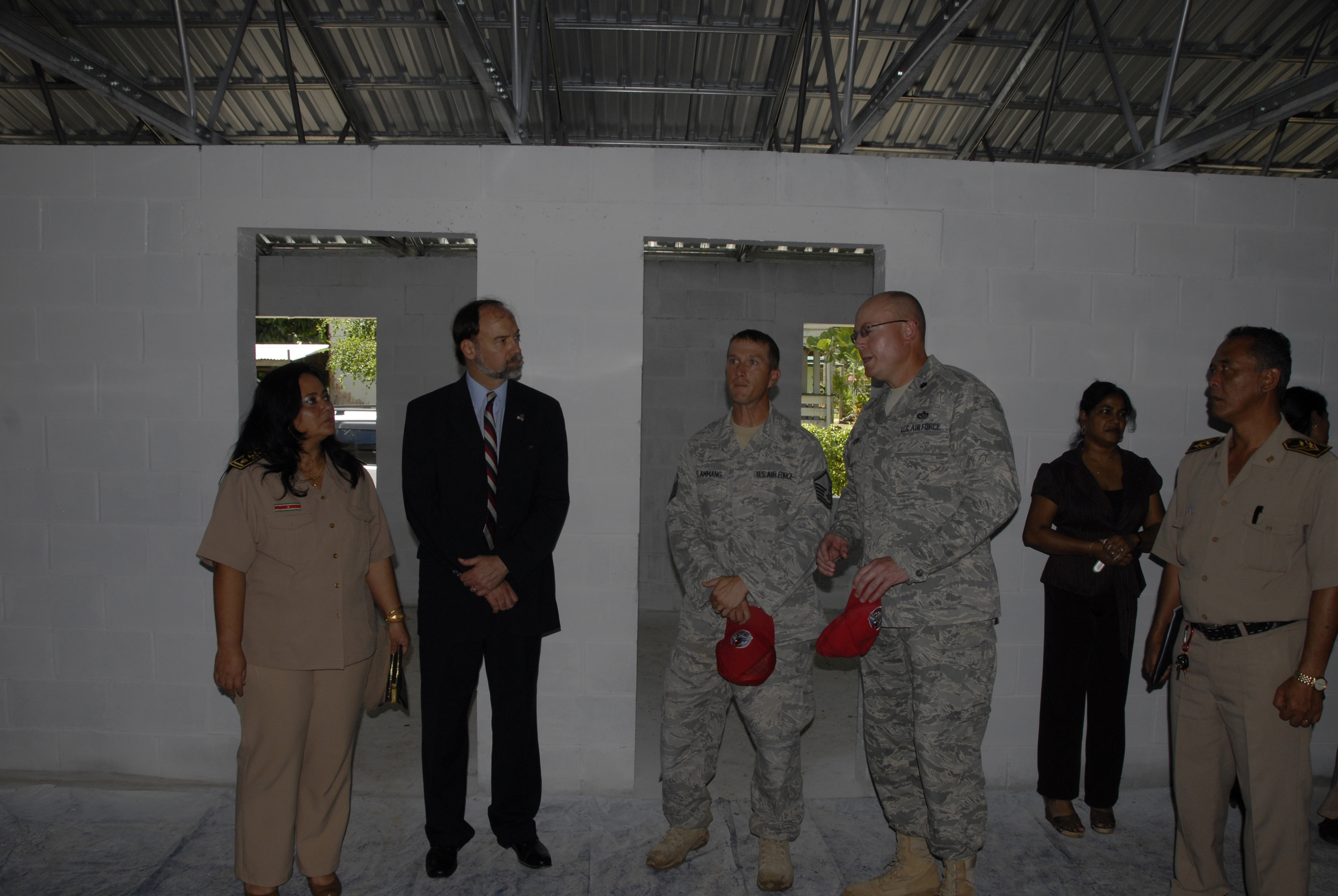 (From left to right) Commewijne District Commissioner Ingrid-Karta Bink, U.S. Ambassador to Suriname John Nay, Project Coordinator for the Nieuw Amsterdam Clinic Master Sgt. Hans Flammang and New Horizons Task Force Commander Lt. Col. John Blackwell take a tour of the Nieuw Amsterdam Clinic being built here, July 14, 2011. The clinic is one of several projects under constructions as part of New Horizons 2011 exercise.